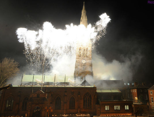 St Martin's Cathedral, Leicester, England, illuminated by fireworks one night in May 2015